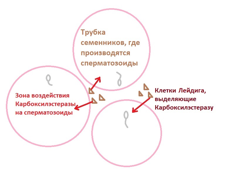 Carboxylesterase expression in Leydig cell